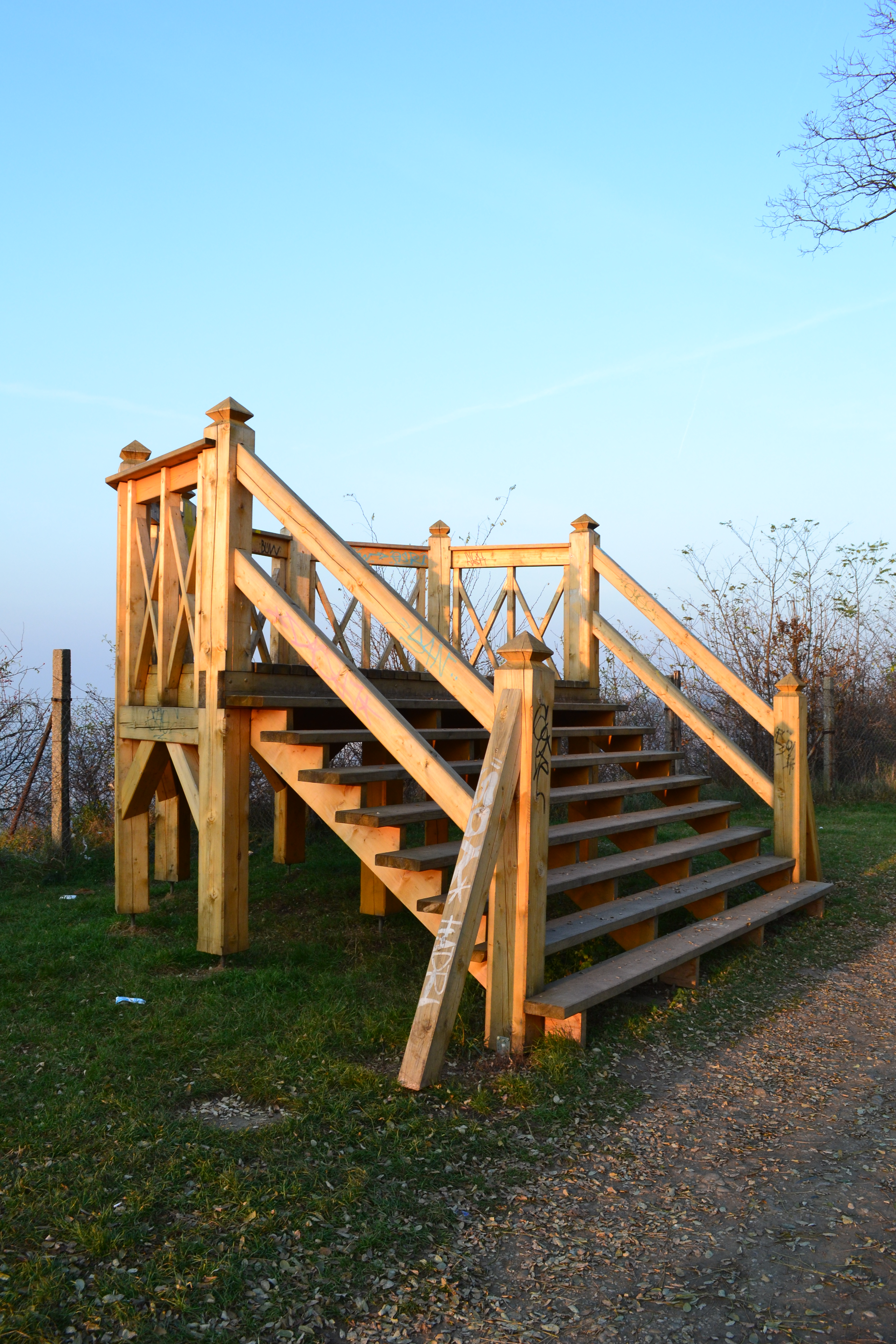 Natural monument Branické skály in Prague, Czech Republic